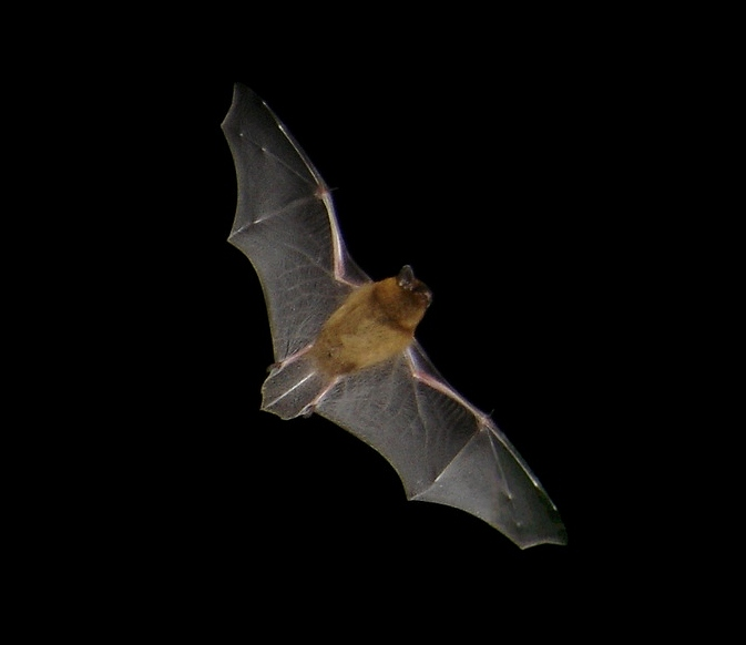 Pipistrellus pipistrellus in flight. Picture taken at dusk with a digital camera (Sony DSCP-90). Location: Brittany (France).